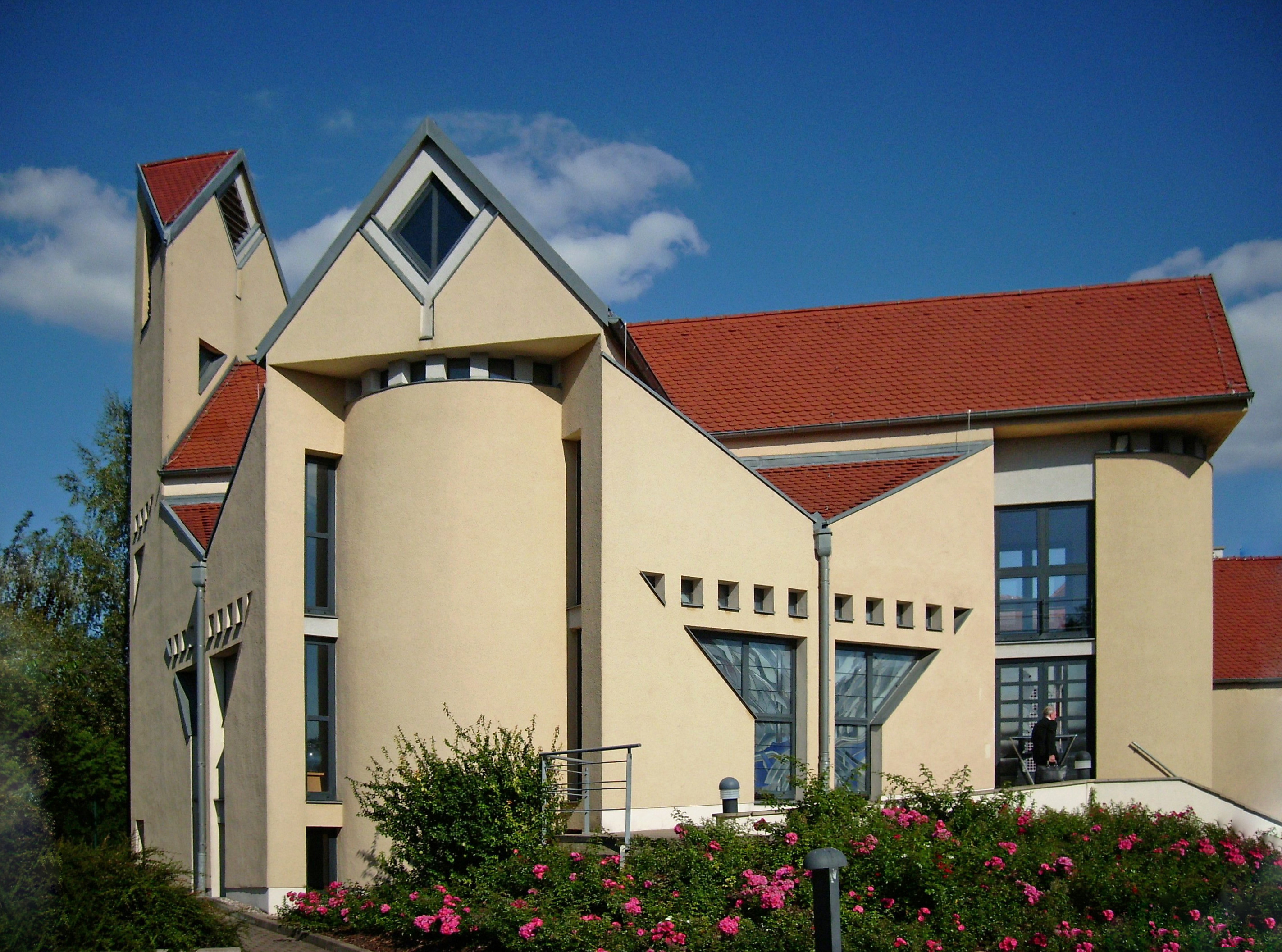 Roman Catholic Maria Regina church in Bad Lauchstädt (district of Saalekreis, Saxony-Anhalt)